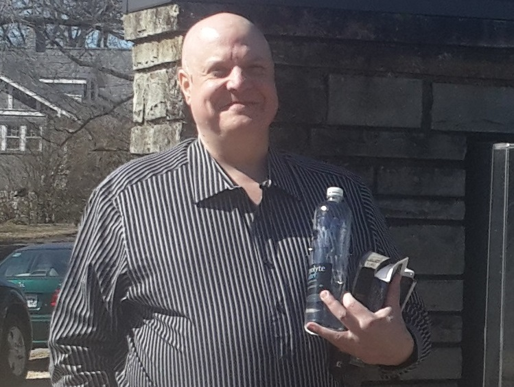 Bart Sibrel in February 2014